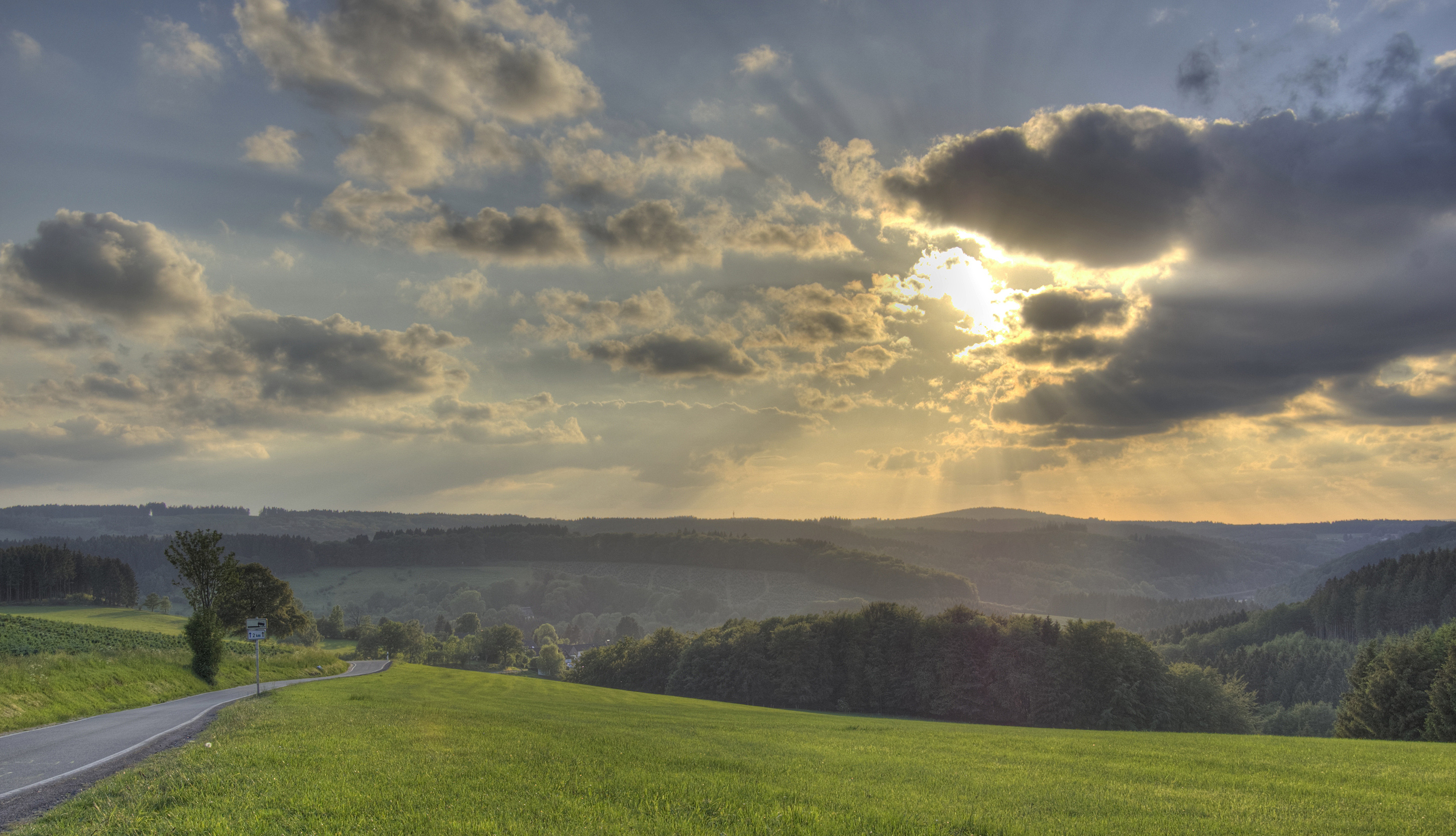 Landscape near Stottmert, a district of Herscheid, Germany.